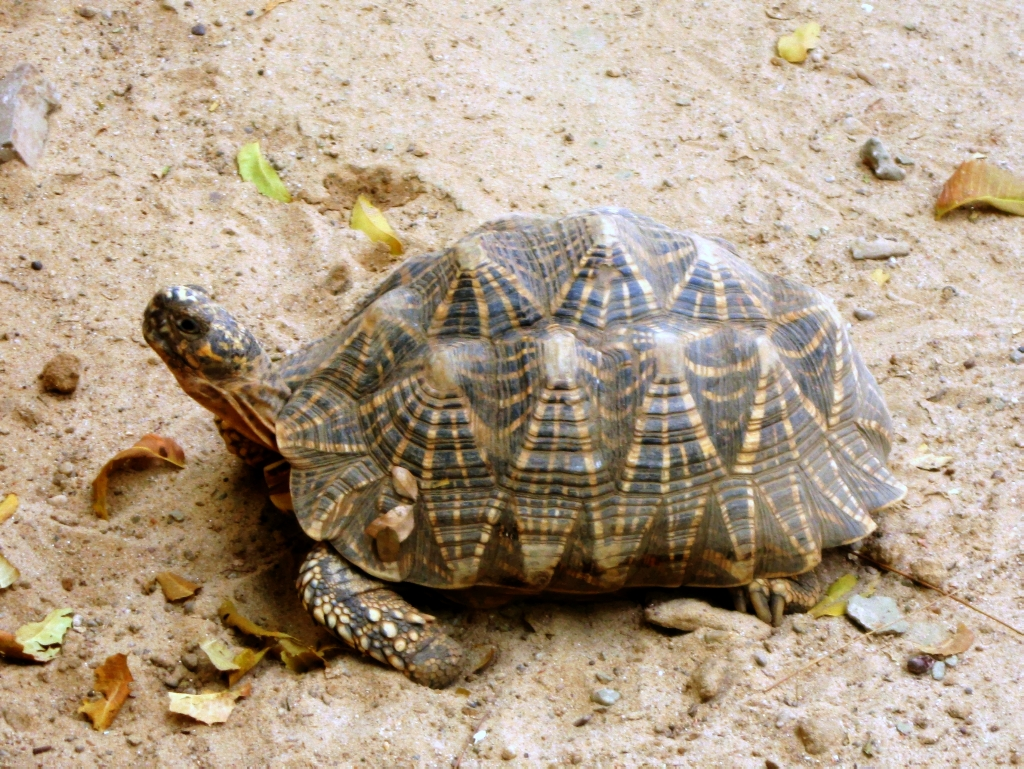 "Kachuwa" as the locals would call a Tortoise in India, clicked at a National Park, India.